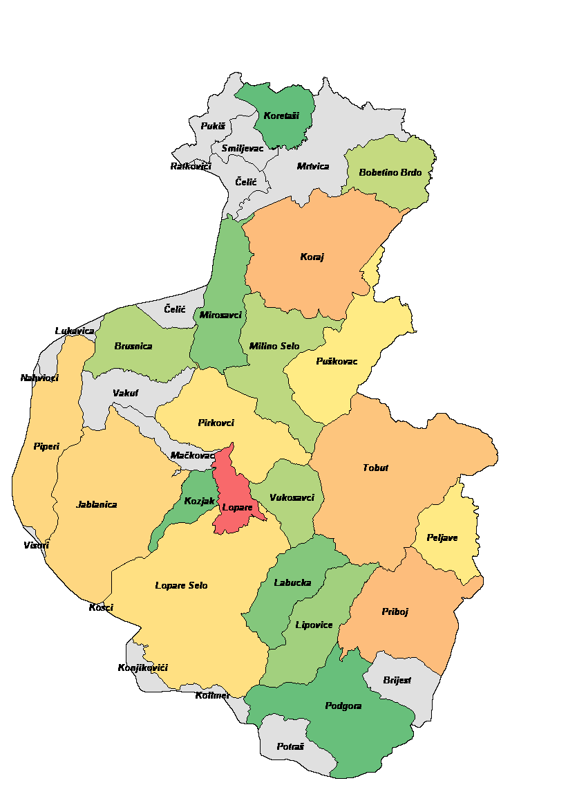 Lopare